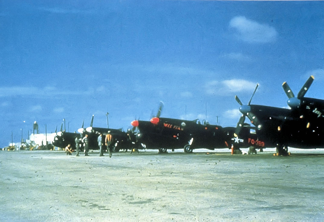 339th Fighter Squadron 3 F-82s Johnson Air Base, Japan 1950 F-82E Twin Mustang 46-353 in center